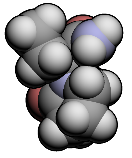 Molecular spacefill of Levetiracetam